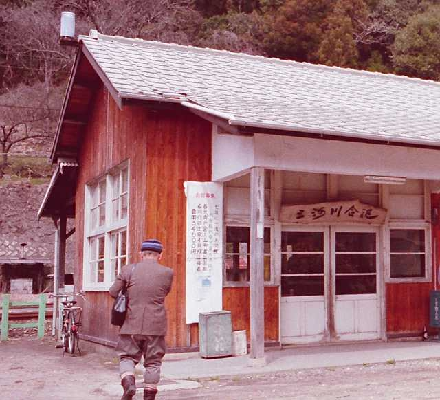 Then-JNR Mikawa-Kawai Station, Iida Line, Aichi Pref.